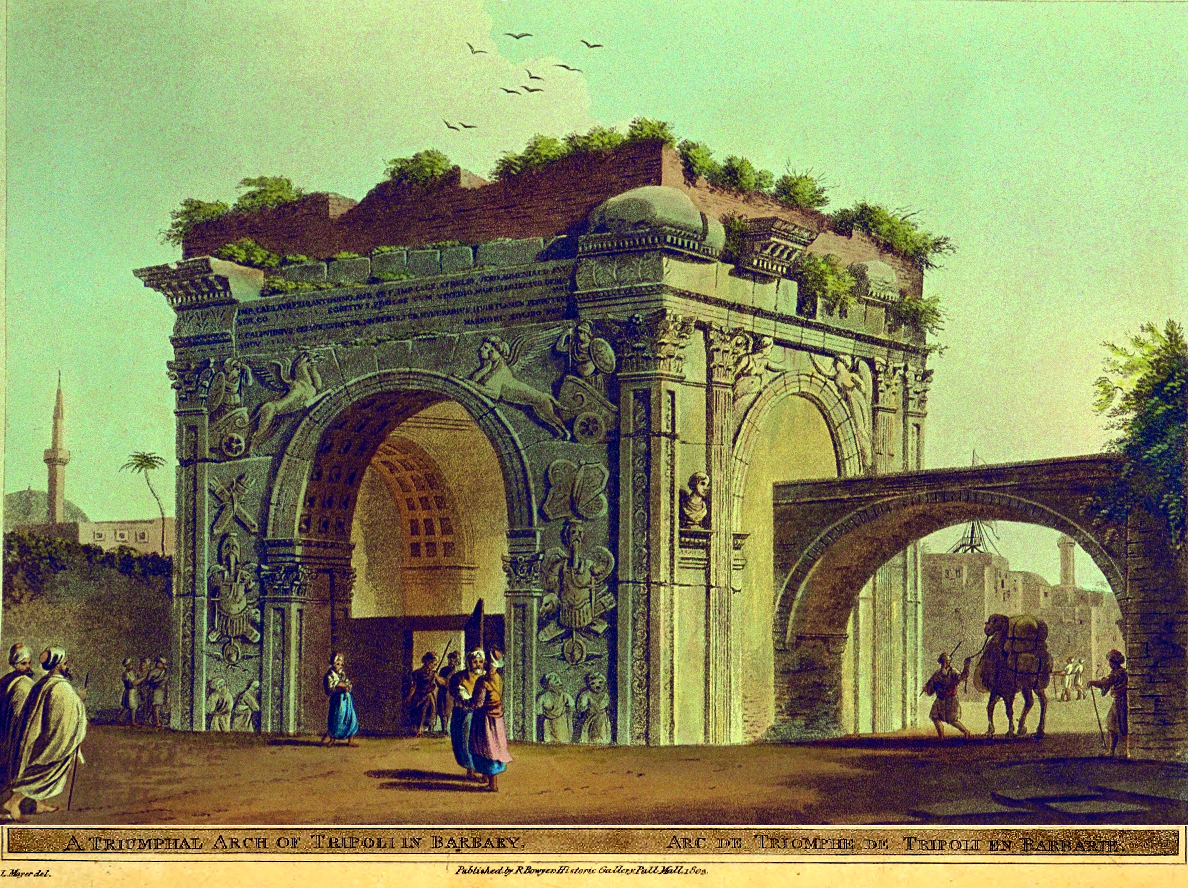 Marcus Aurelius Arch in Tripoli